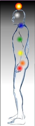 I sette chakra sul iano sagittale